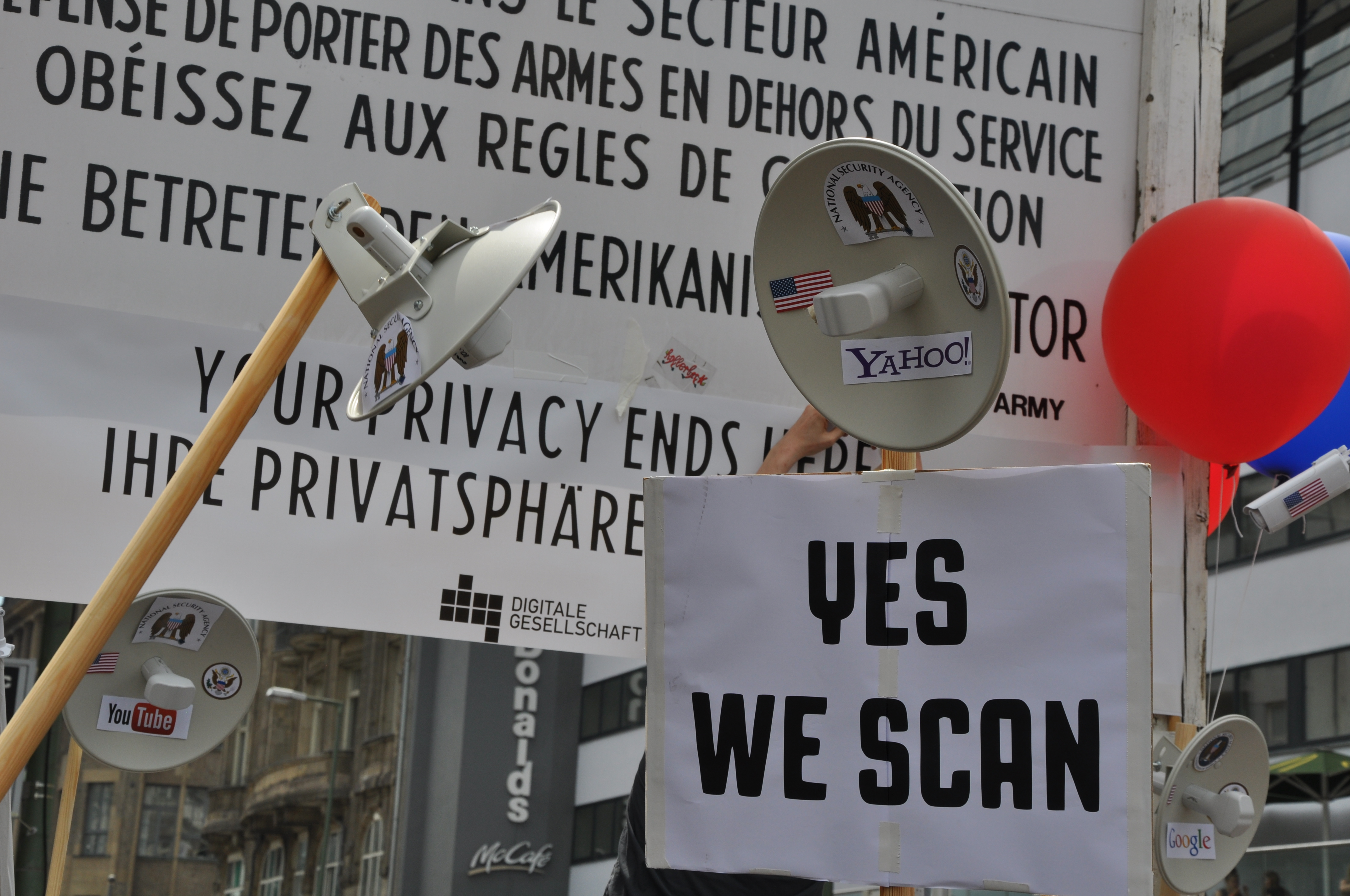 Yes we scan - Demo am Checkpoint Charlie